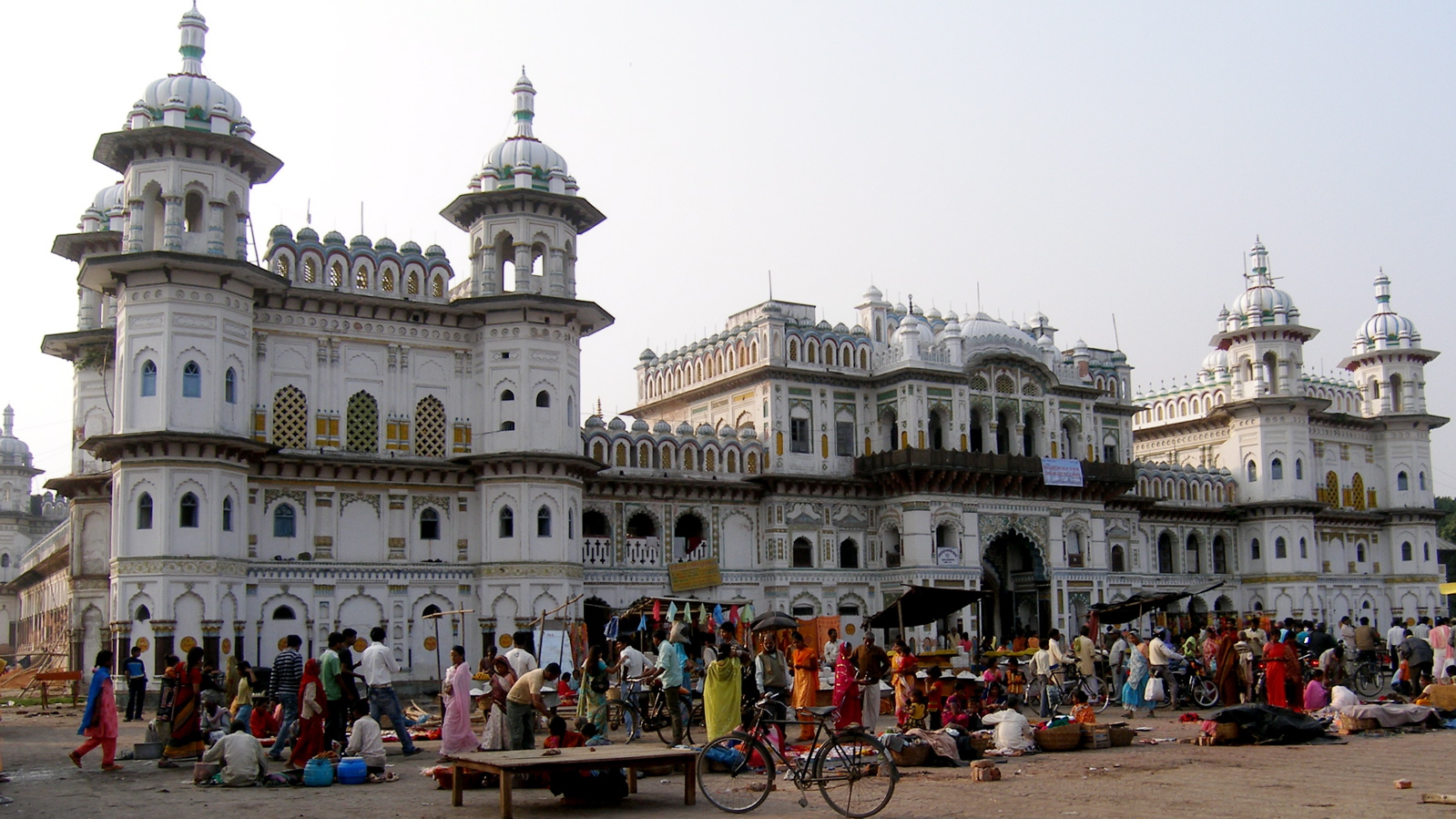 Janaki Mandir (Temple) in Janakpur, Nepal